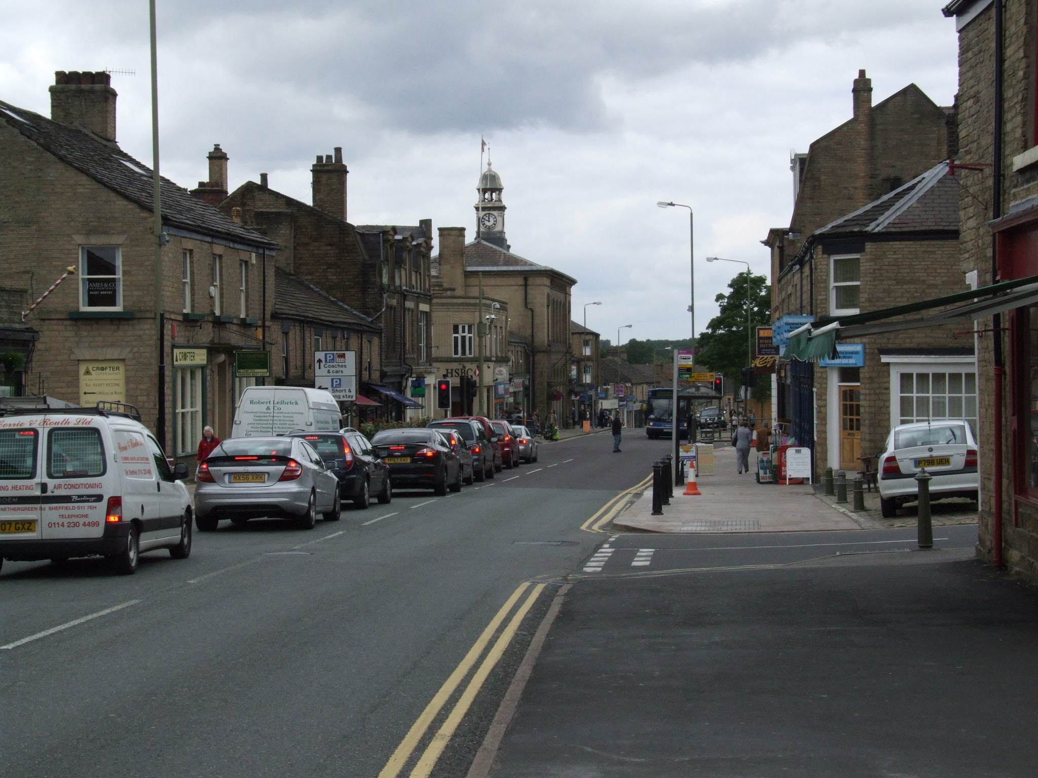 Glossop|Glossop is a village in Derbyshire|Derbyshire on the edge of Greater Manchester. High Street A57.